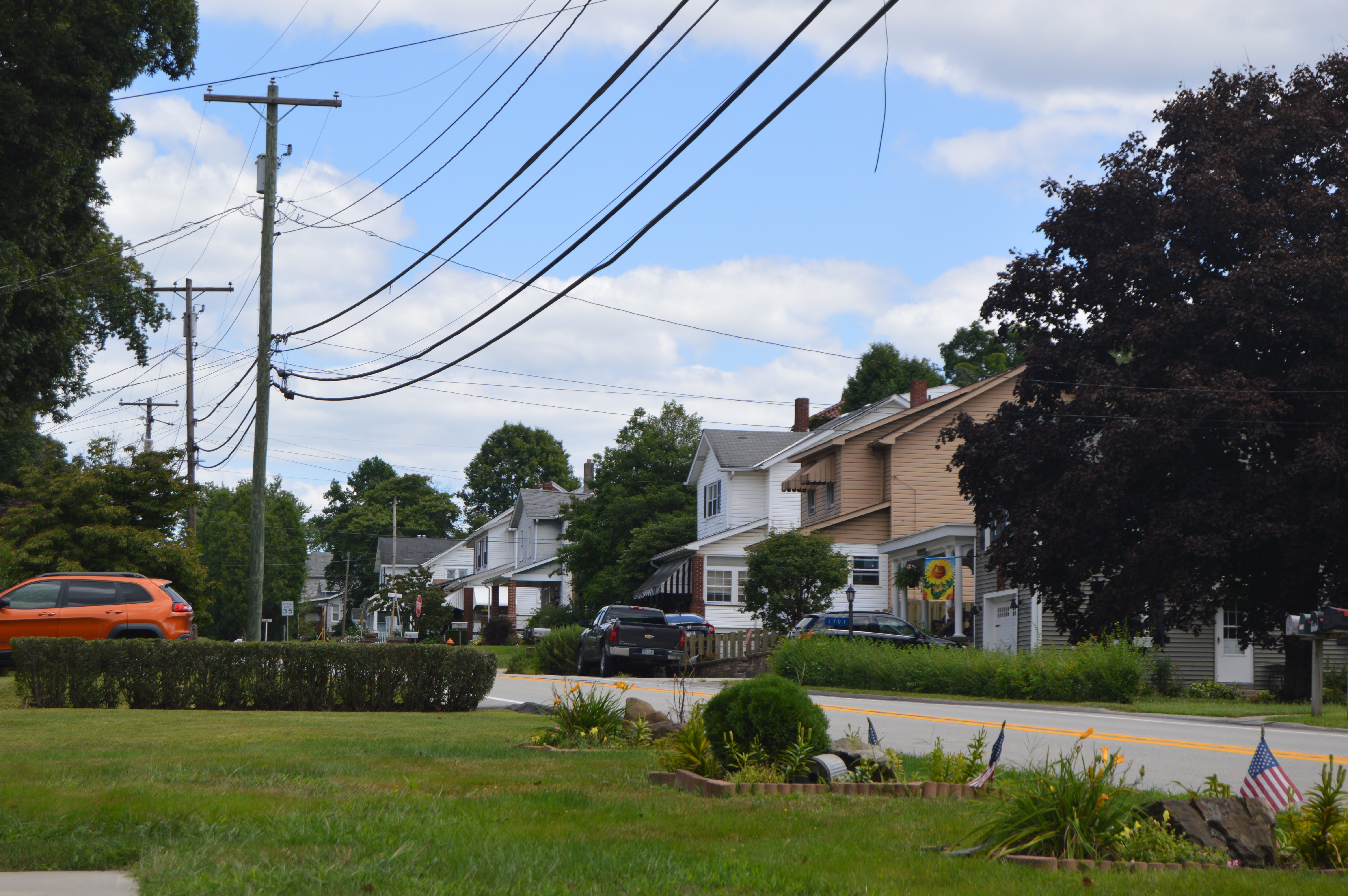 Houses on Hancock Avenue east of Grove Street in Oklahoma, Pennsylvania, United States.